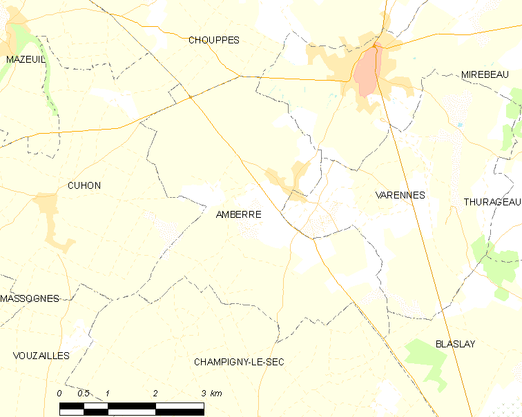 Map of French municipality Amberre